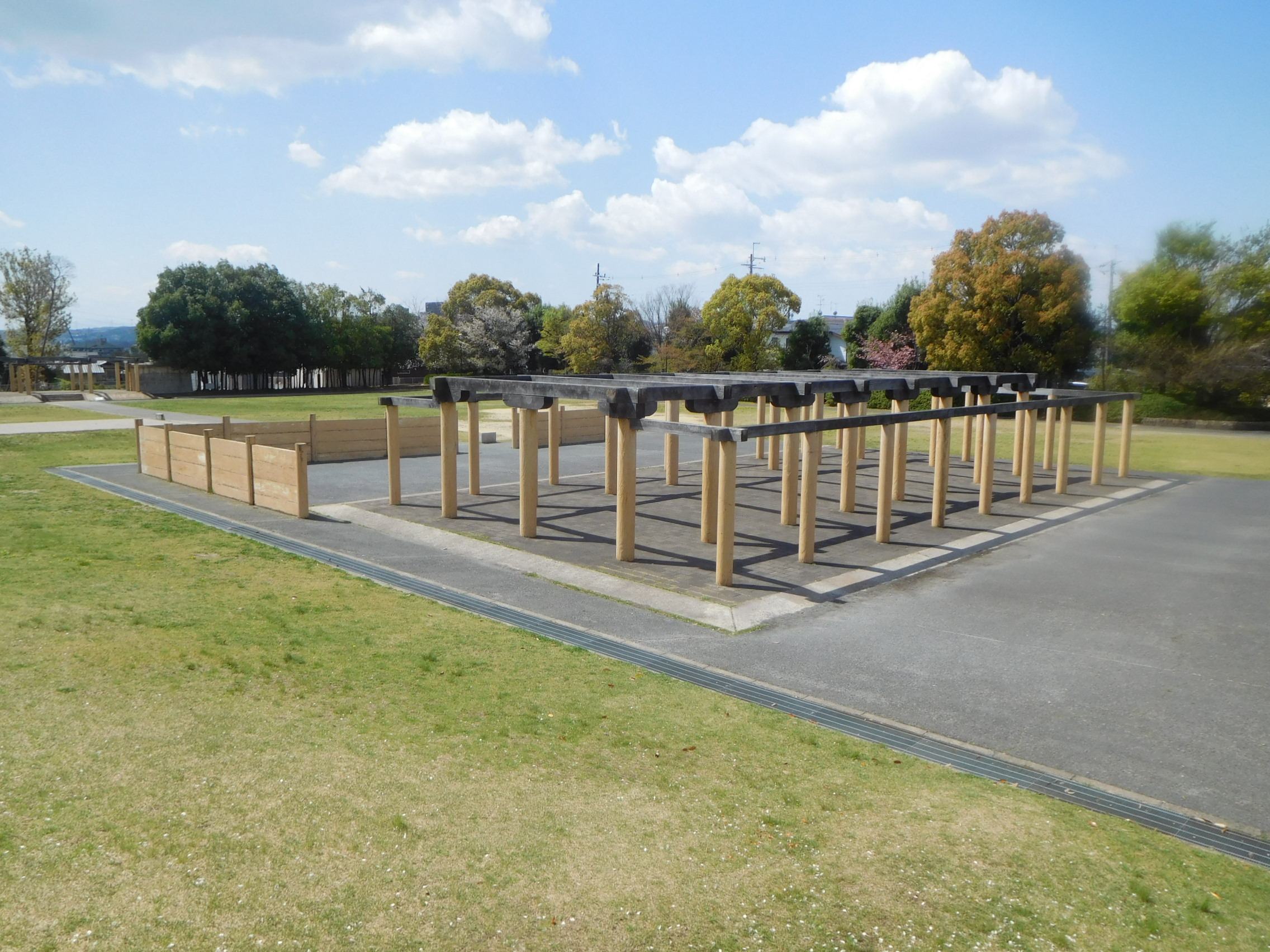 Shoudoukanga-Iseki, Joyo-City, Kyoto-Pref, Japan.